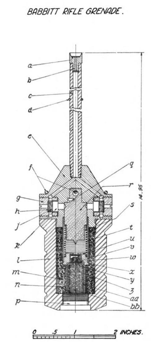 Diagram of a Babbitt rifle grenade, as using in the Springfield 1903 rifle. a. Paper disk. b. Sabot. c. Stem. d. Stem ring. e. Closing screw. f. Safety wire. g. Safety pellet screw. h. Paper disk. j. Safety pellet. k. Safety pin. l. Body m. Trinitrotoluol. n. Detonating cup filling disk. p. Plug. q. Plunger locking pin. r. Plunger. s. Plunger restraining spring. t. Casing. u. Primer holder. v. Percussion composition. w. Primer covering. x. Primer housing. y. Primer charge. z. Primer closing disk. aa. Detonator cup. bb. Detonating compound. The grenade is designed to be fired at a constant angle of elevation, namely 45Â°, except as noted below for ranges under 50 yards. The range attained is dependent upon the length of the stem inserted in the bore of the rifle. Tests have shown that within considerable limits the range is but little affected by small changes in the angle of elevation, near 45Â°, while a change in the length of inserted stem gives an appreciable change in the range.